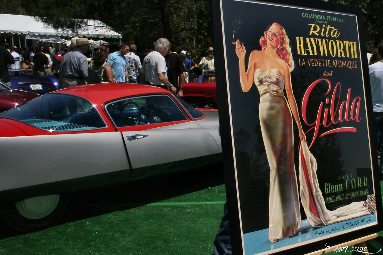 Pasadena Art Center Car Classic in Linda Vista, Pasadena, California